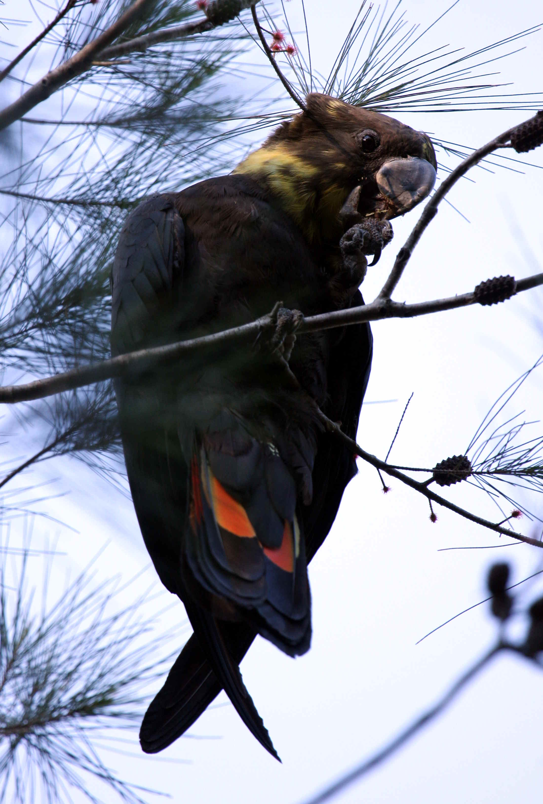 Glossy Black Cockatoo (Calyptorhynchus lathami) Female, Kobble Creek, SE Queensland, Australia